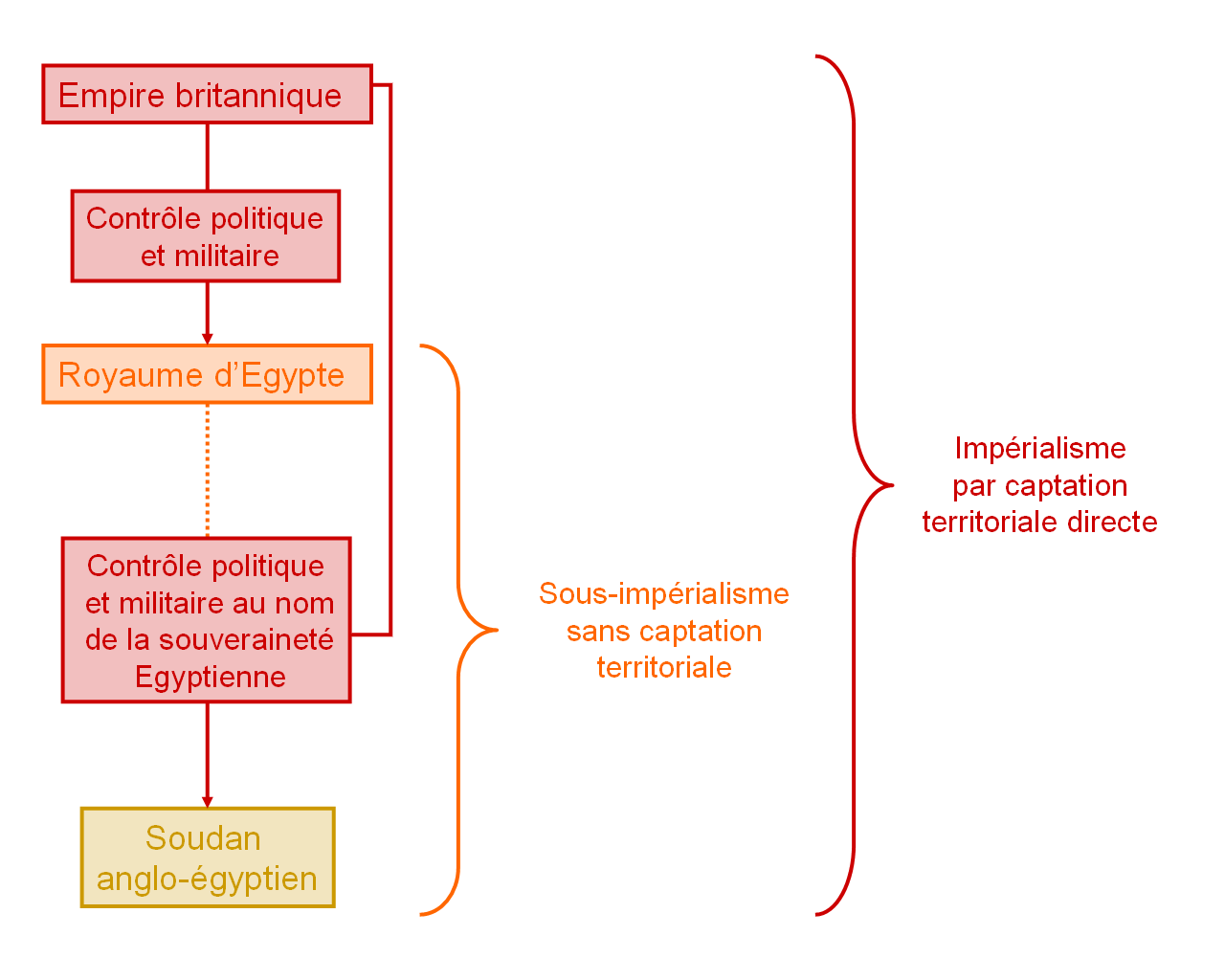 Imperialist model, with sub-imperialist constituent without control territorial, of control with direct territorial illegal securement within the framework of the English-Egyptian Condominium over Sudan.